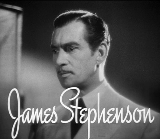 Cropped screenshot of James Stephenson from the trailer for the film The Letter.